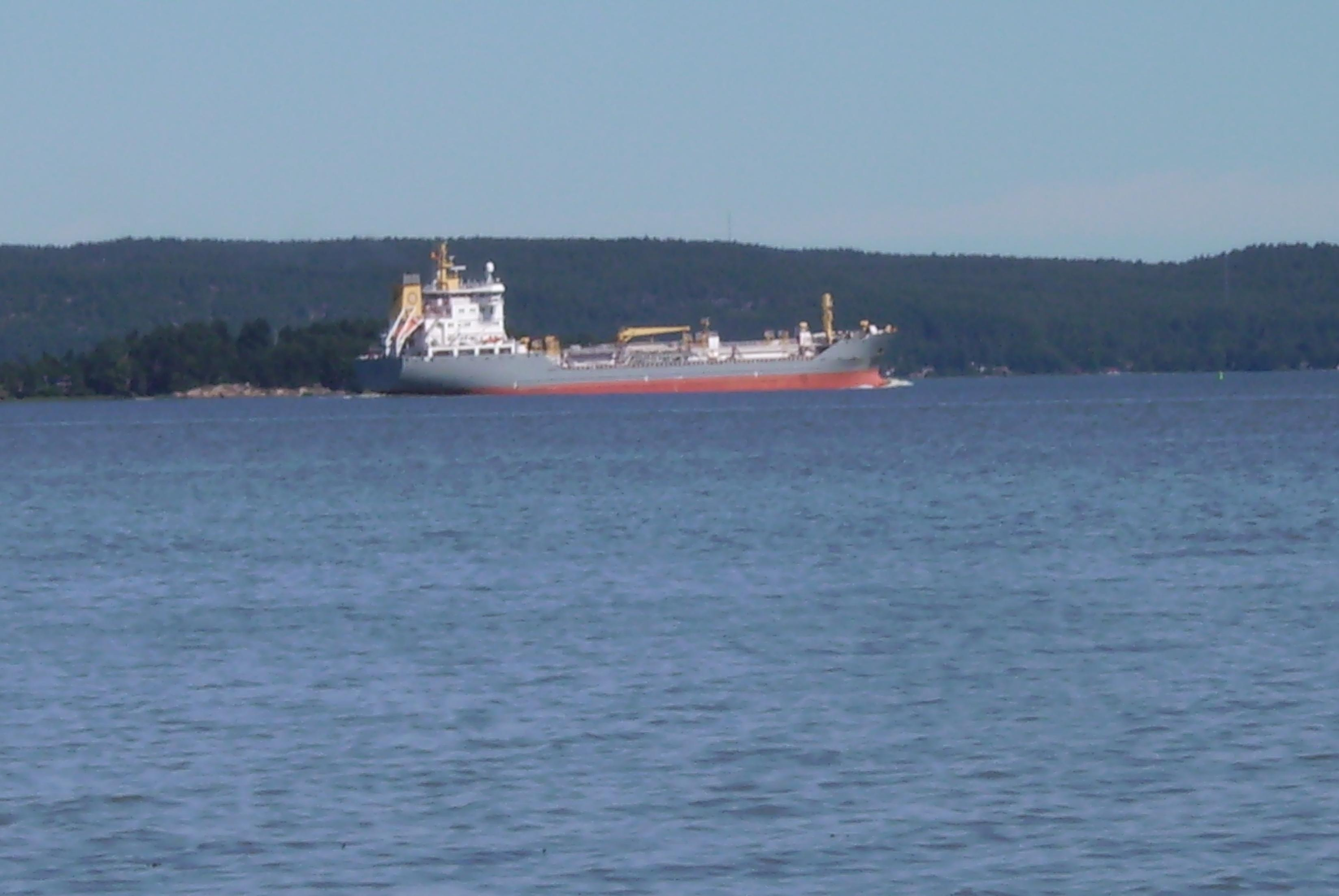 The harbour and factory area in Norrköping and the bay Bråviken.